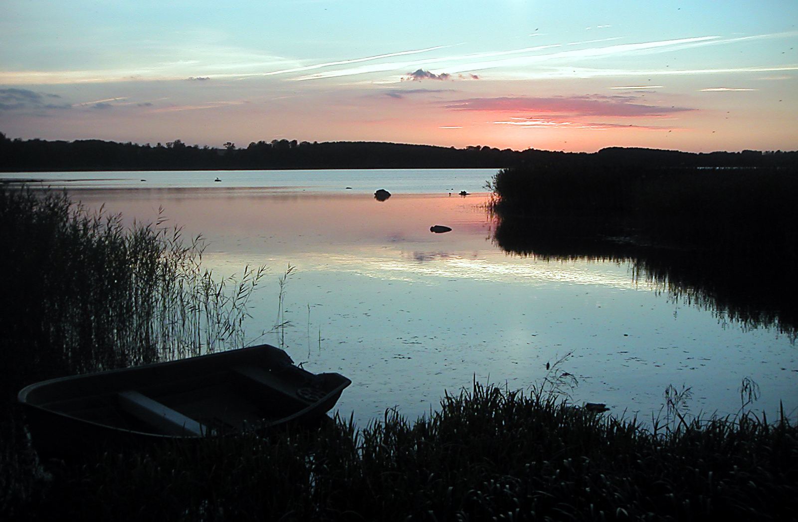 The lake Ringsjön is located in central Skåne in southern Sweden.